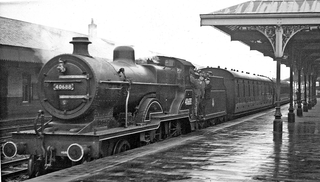 Kilmarnock Station, with train. View SE, towards Mauchline etc., New Cumnock, Dumfries and Carlisle; ex-Glasgow & South Western, Glasgow (St Enoch) - Carlisle main line, etc. The train is a local to St Enoch, headed by LMS 2P 4-4-0 No. 40688, in lined-out livery characteristic of passenger locomotives repaired at St Rollox Works.